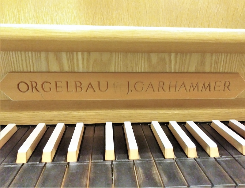 Garhammer-Orgel in der Klinik Bogenhausen